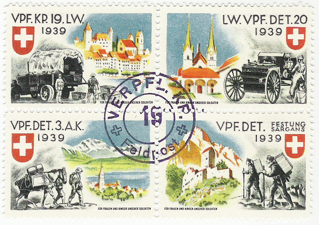 Military mail, stamp WWII, Switzerland